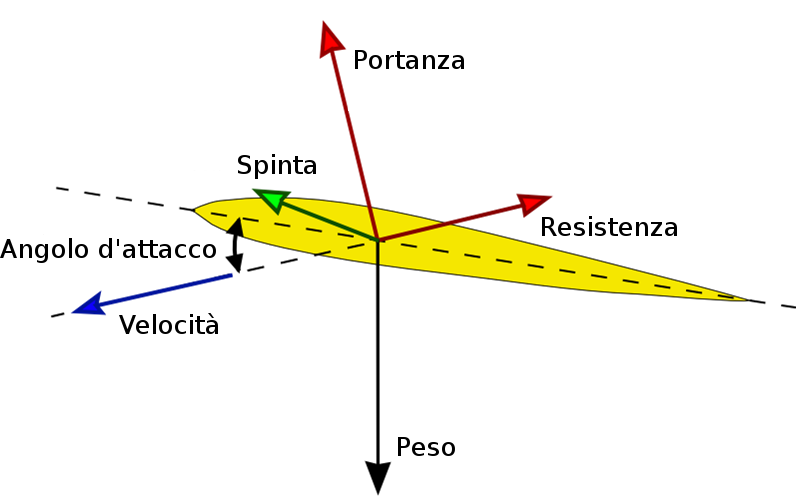 Diagram of noticeable vectors on an airfoil in a typical aeronautical application, italian version based on Lift-force.png